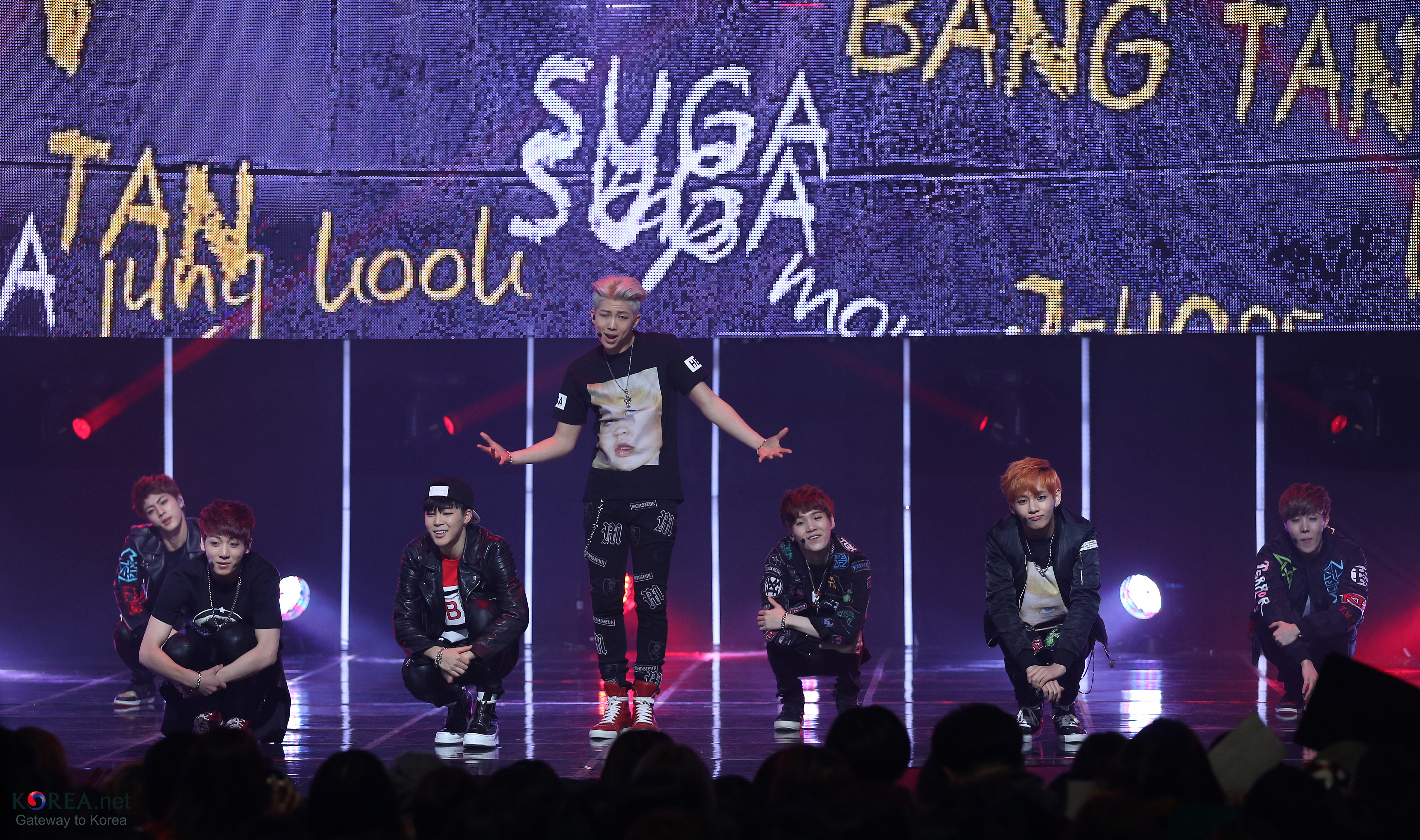 Mcountdown BTS ‘Boy in Luv’ Rap Monster, Suga, Jung Kook, Jimin, V, J-Hope, Jin CJ E&M Center, Sangam-dong, Mapo-gu, Seoul 2014.03.06. Ministry of Culture, Sports and Tourism Korean Culture and Information Service ( Jeon Han 엠카운트다운 생방송 방탄소년단 ‘상남자’ 랩모스터, 슈가, 진, 제이홉, 지민, 뷔, 정국 2014-03-06 CJ E&M 센터 문화체육관광부 해외문화홍보원 코리아넷 전한